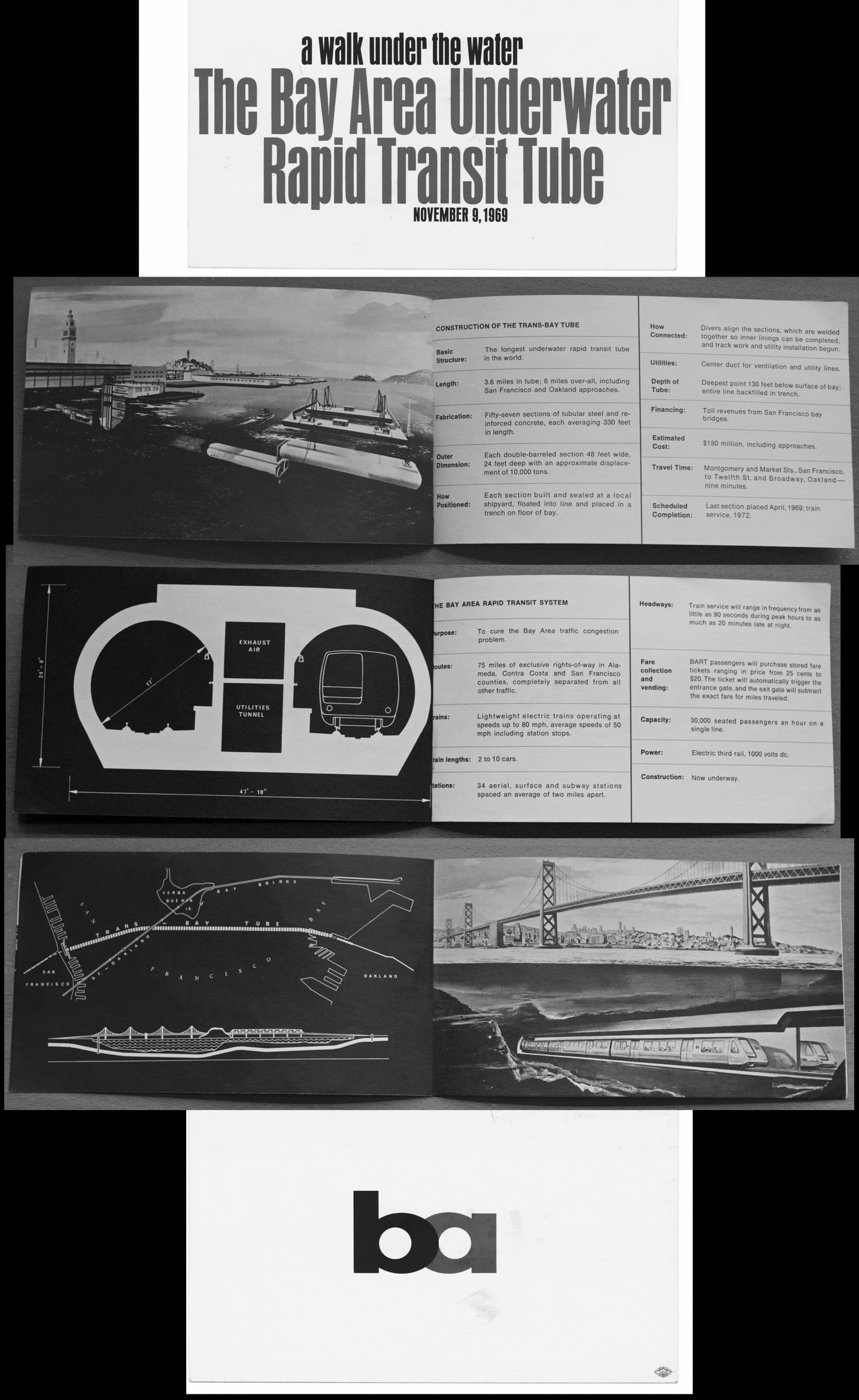 a flyer that was handed out during a weekend where people were (evidently) allowed to walk through the transbay tube...